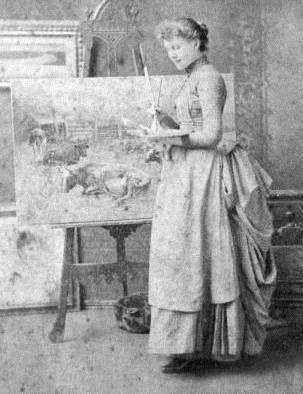 American artist Adelia Armstrong Lutz (1859–1931) (cropped from original)